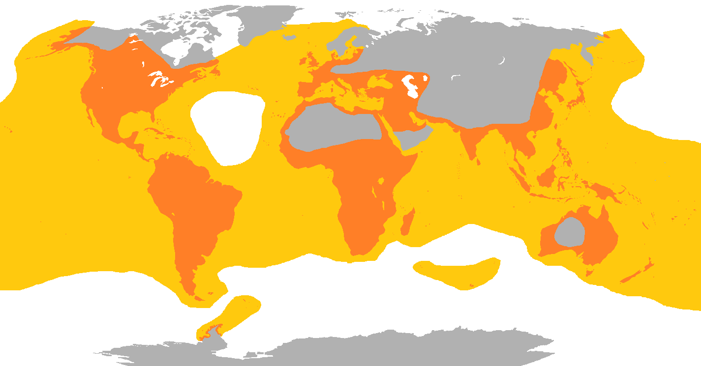 Map showing the combined range of the Pelecaniformes and Suliformes, based on outdated taxonomic concepts (Pelecaniformes sensu lato).